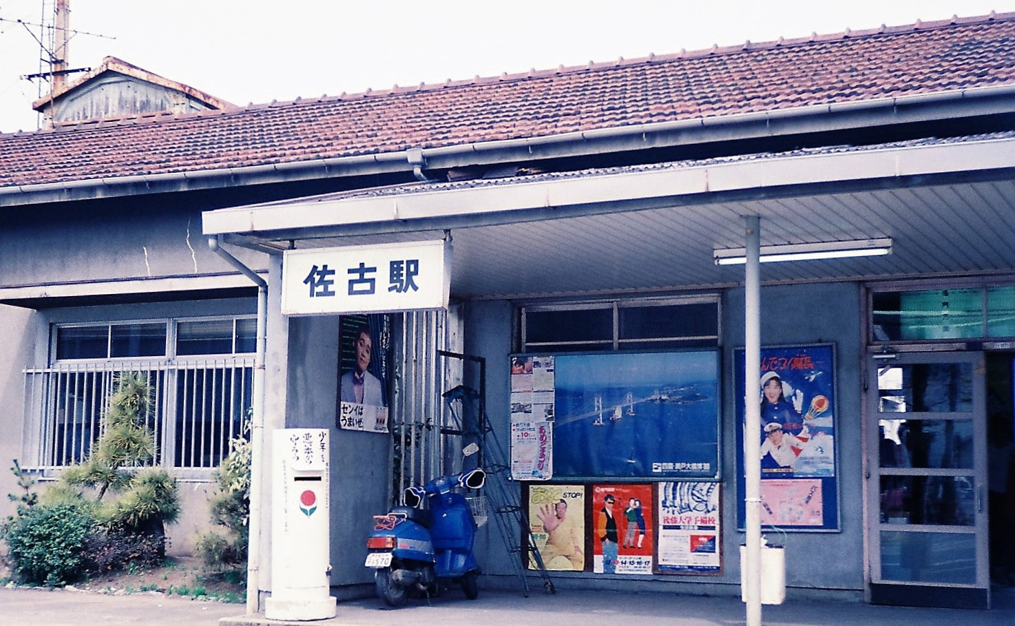 Sako Station